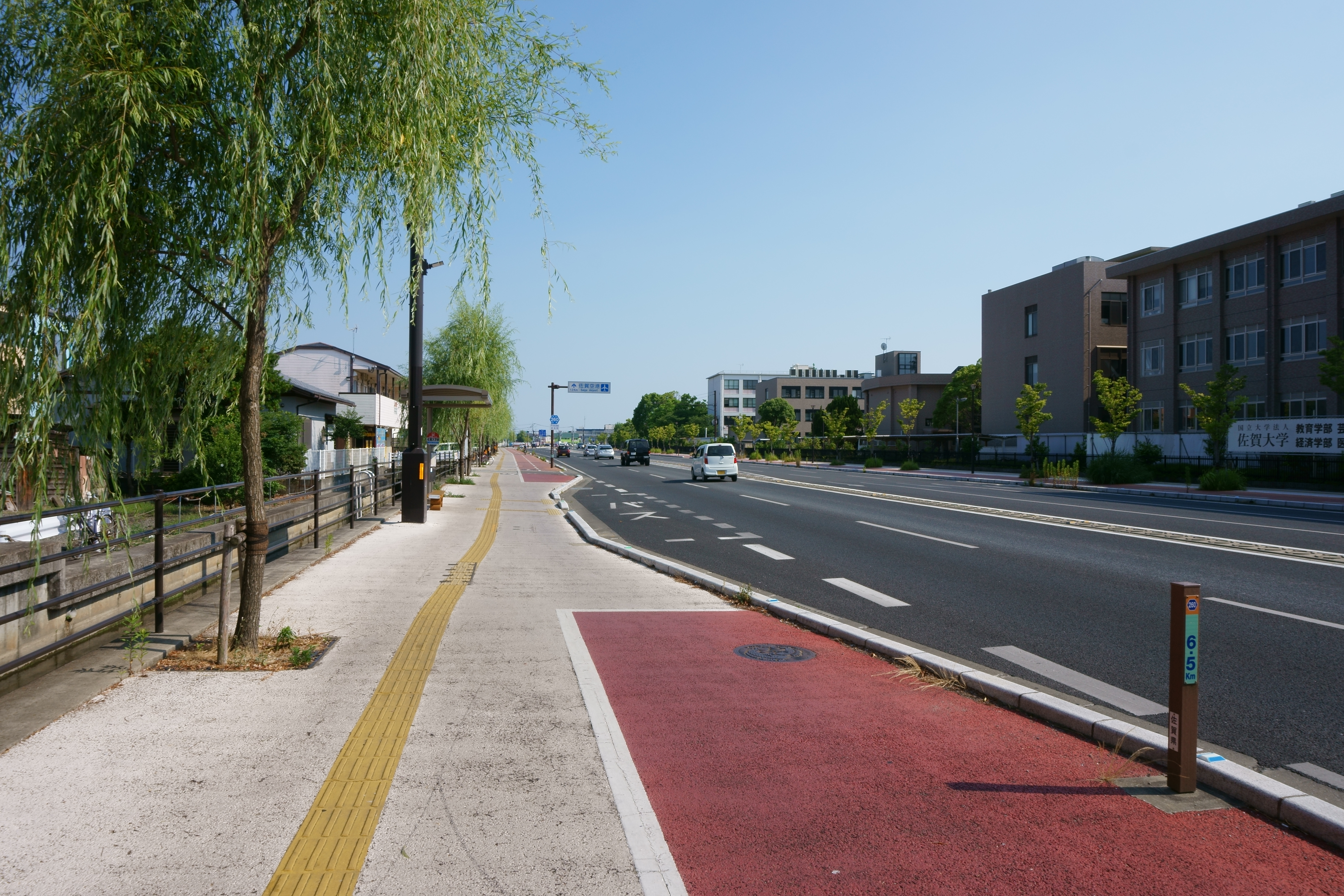 Street between Akamatsu-machi and Honjo, Saga city. It is part of Saga prefectural road No.260.